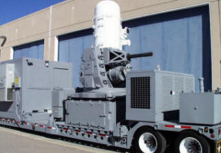 From